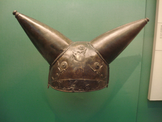 The only Iron Age horned helmet to be found in Europe, it was found in the Thames at Waterloo Bridge.